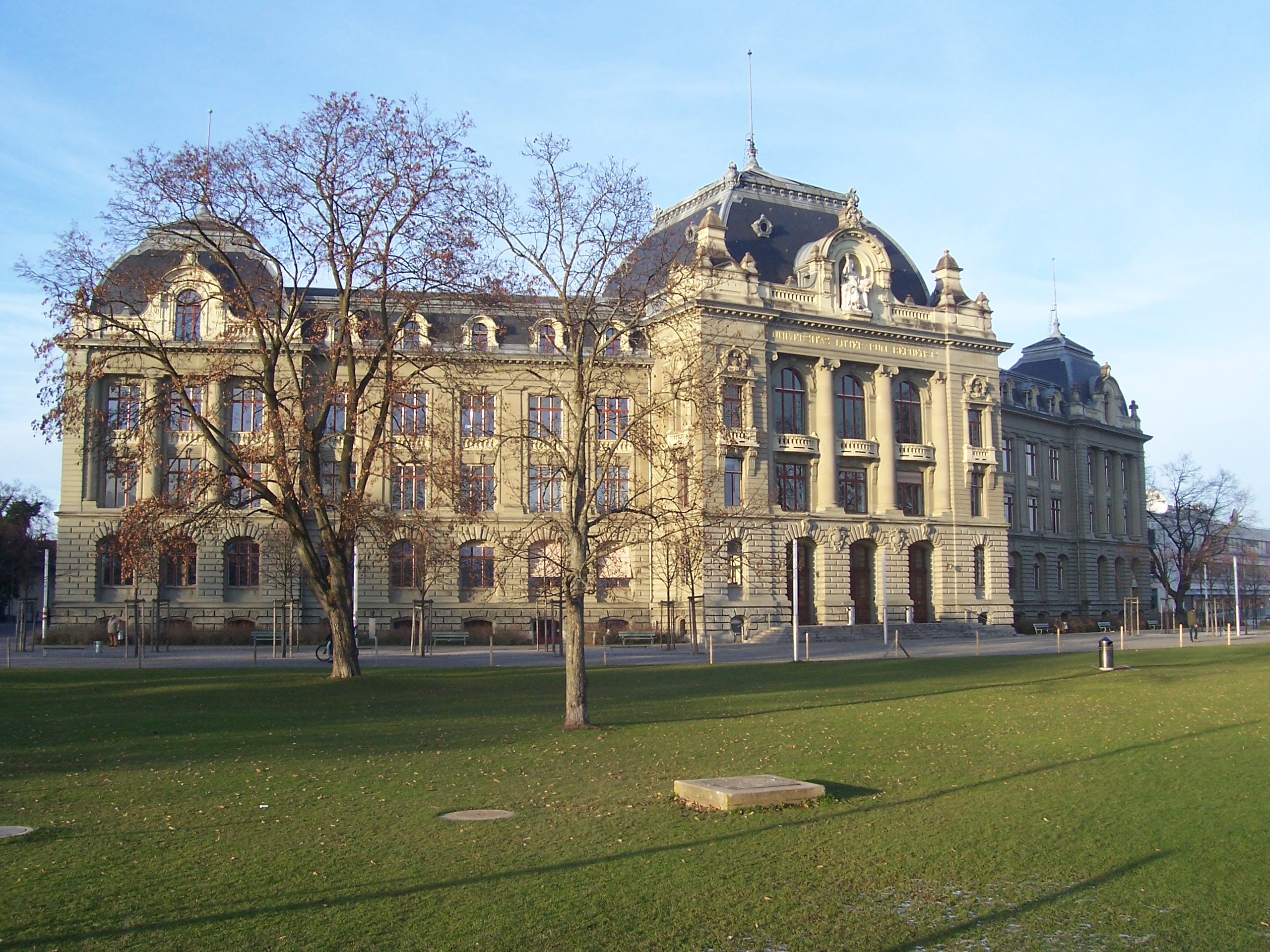 Hauptgebaude (main building) of the Universitaet Bern, Bern, Switzerland